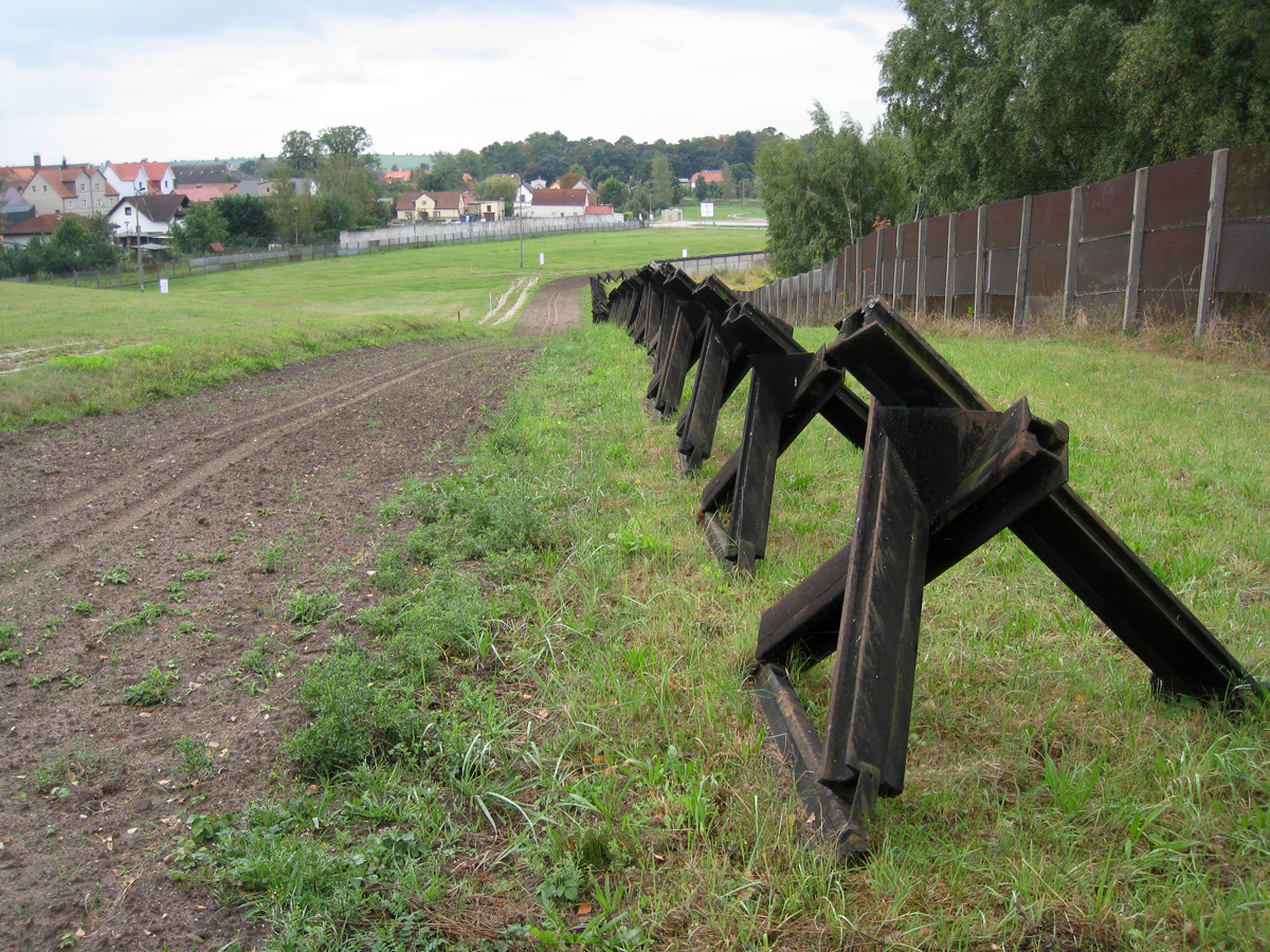 Czech Hedgehog (Panzersperre) barricades on the former inner German border at Hötensleben.